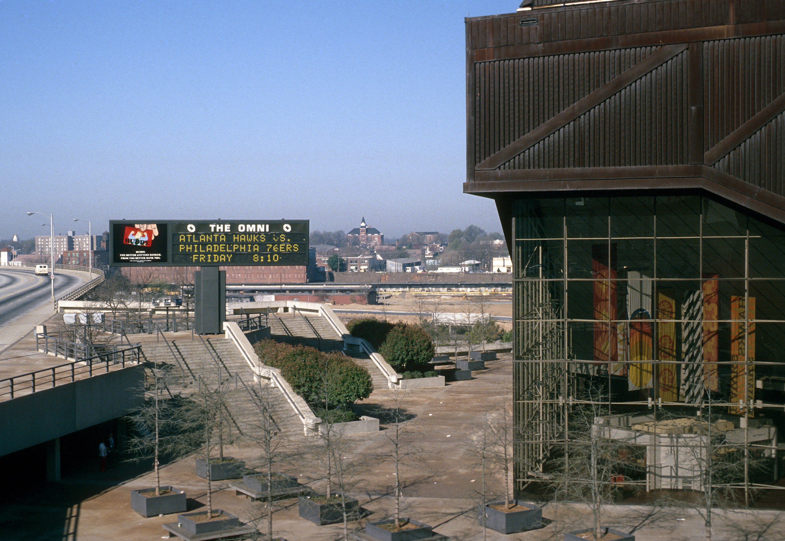 The Omni Coliseum (demolished) in Atlanta in 1977, with railyards and the Martin Luther King, Jr. viaduct in the near distance and Atlanta University Center in the far distance